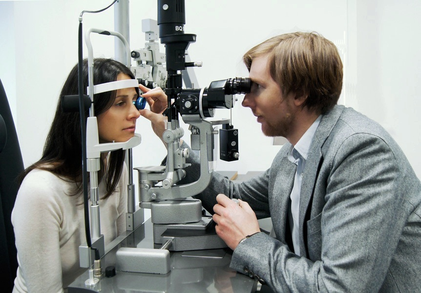 slit lamp examination